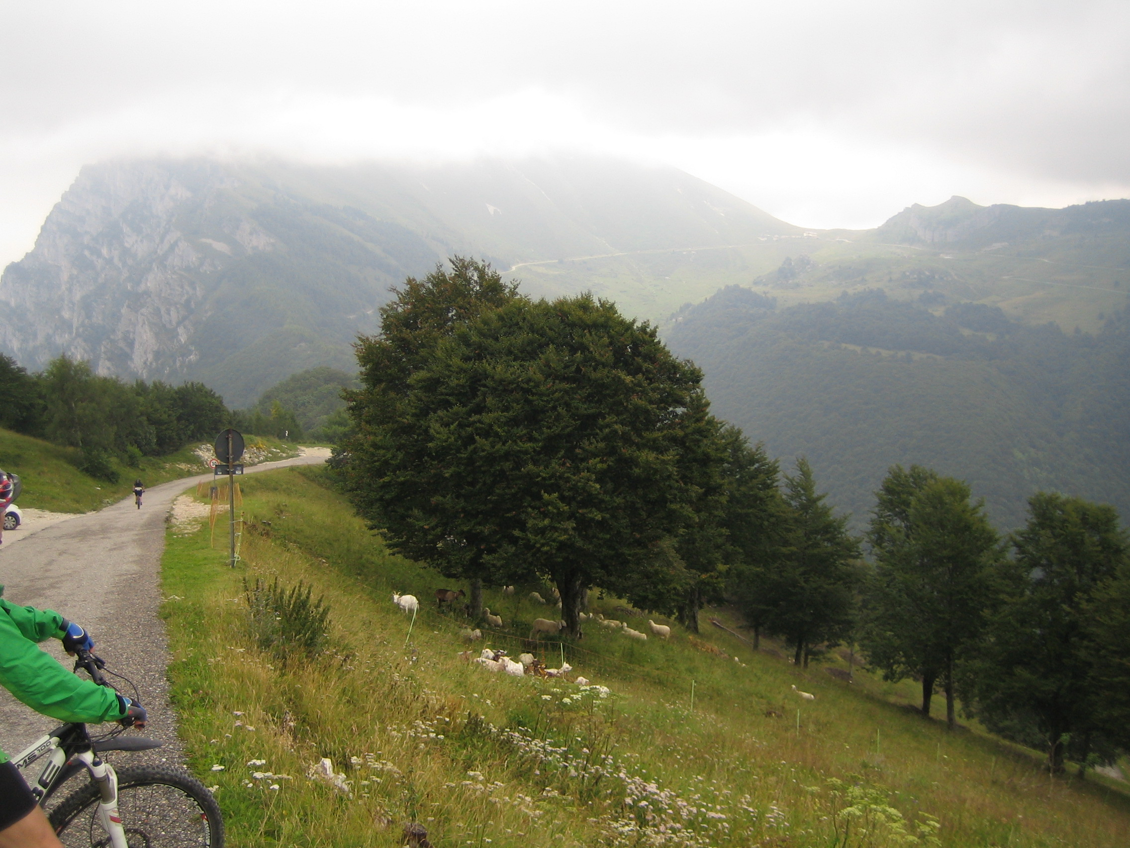 Bocca di Navene from country road Strada Provinciale del Monte Baldo